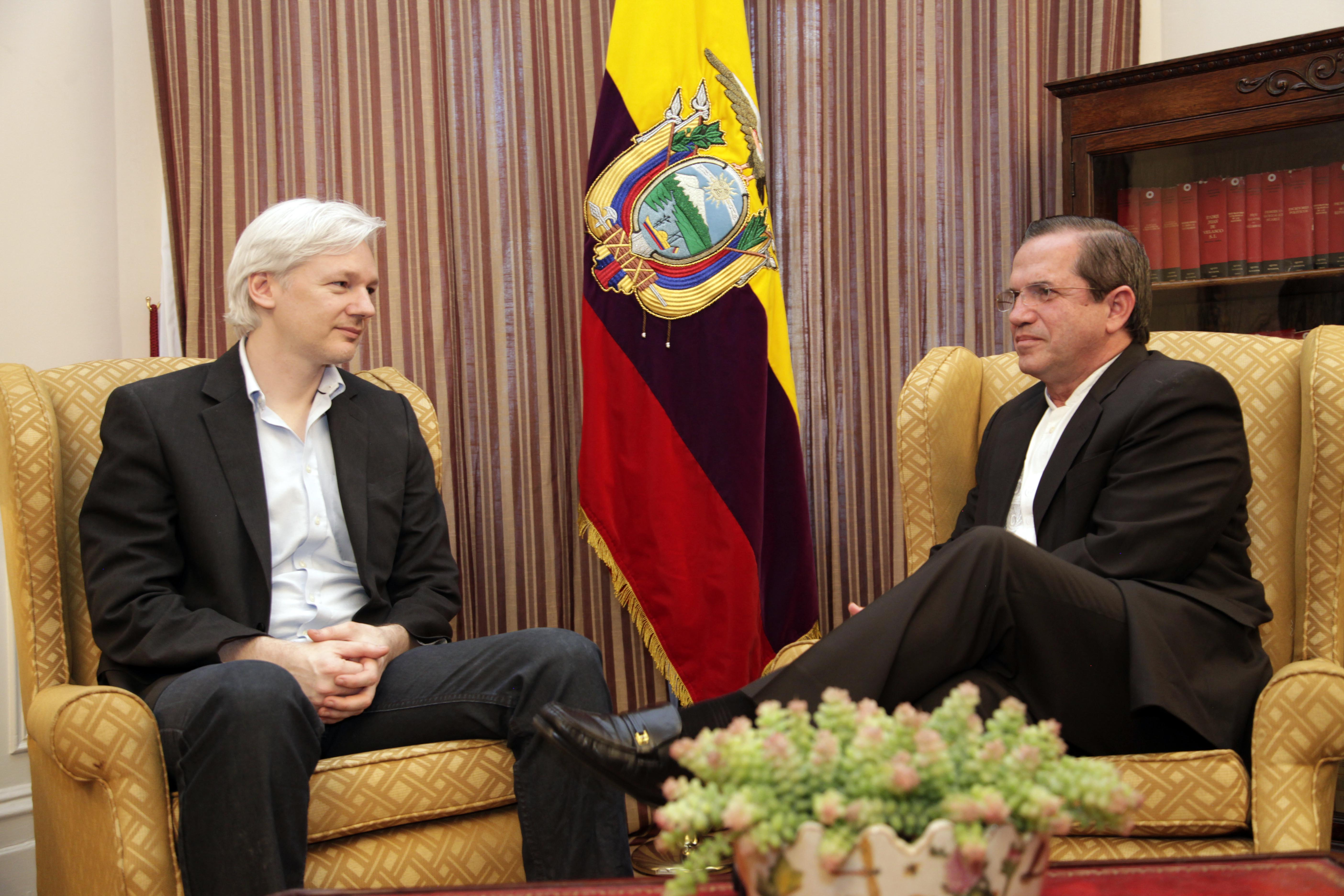 Ecuadoran Foreign Minister Ricardo Patiño met with Julian Assange in London.